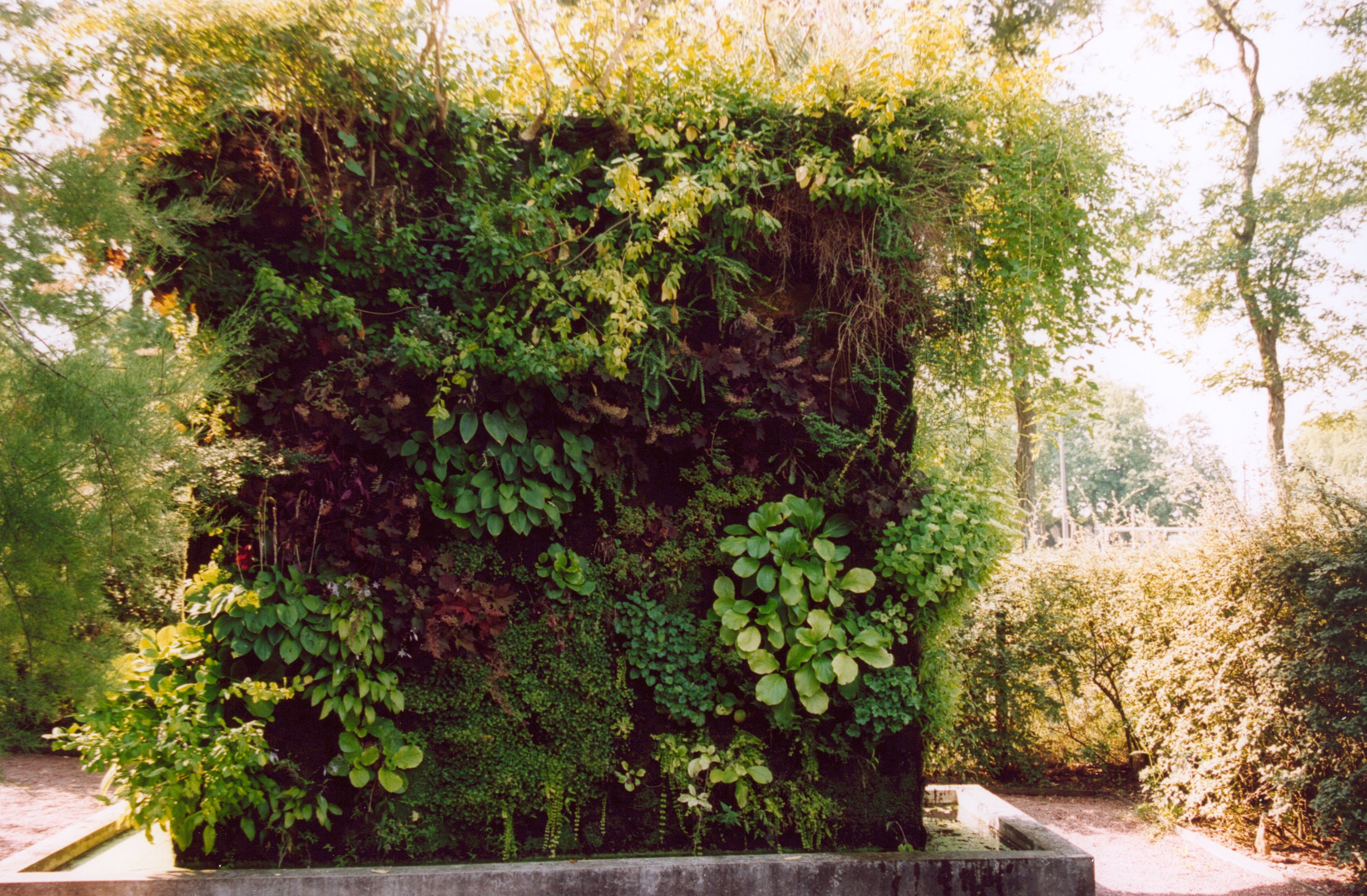 Greenwall de Patrick Blanc, in Chaumont-sur-Loire's Gardens festival (Loir-et-Cher, France). Photo made by GIRAUD Patrick